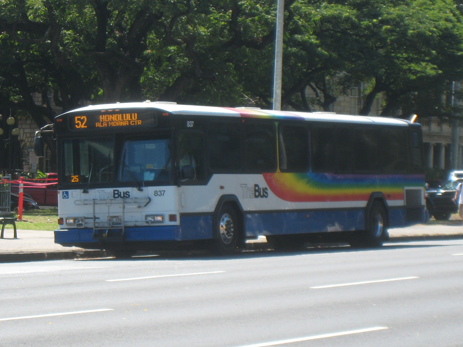 Photograph of a TheBus Gillig Phantom (40') near the intersection of King and Punchbowl Streets in downtown Honolulu.